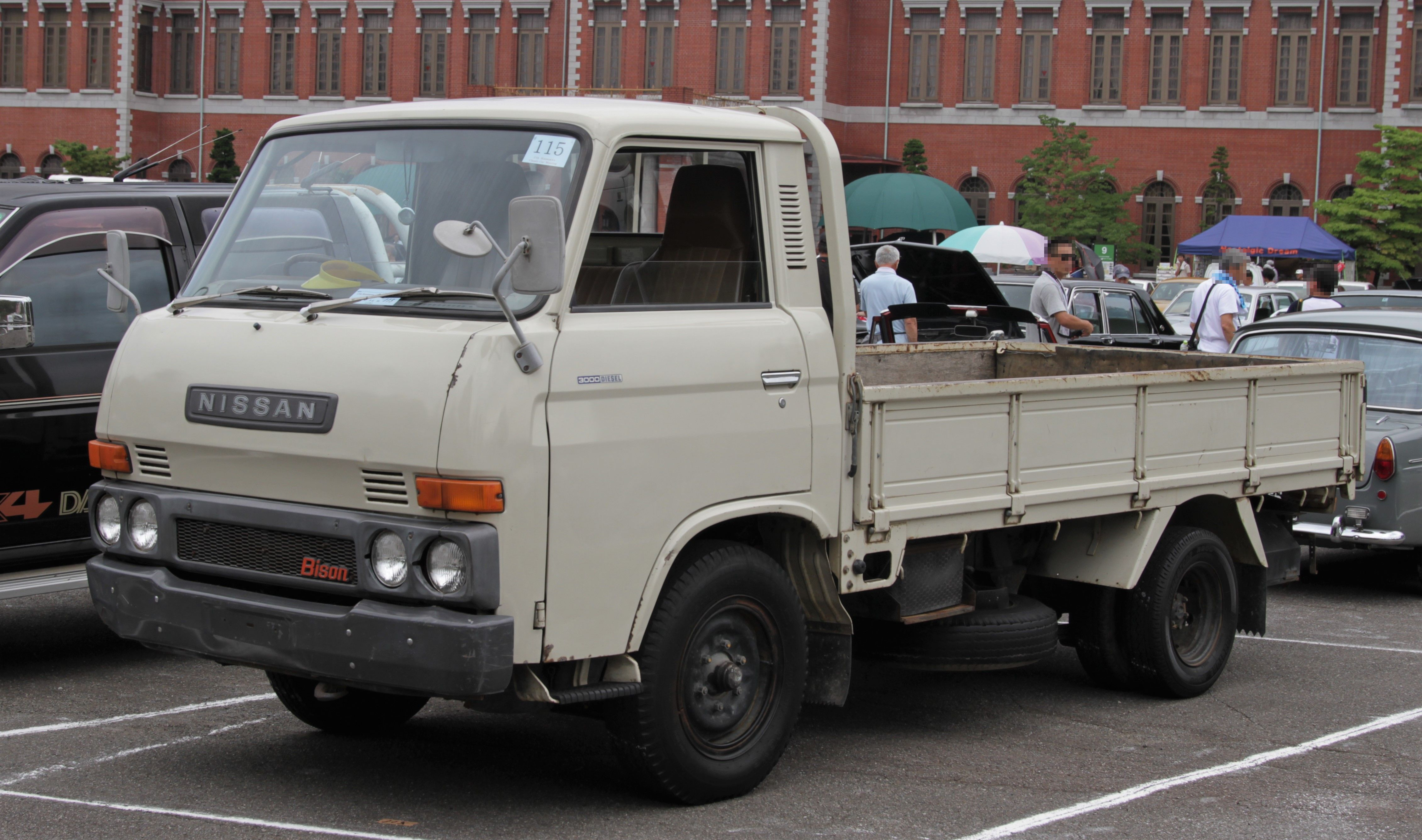 UD (Nissan Diesel) Bison, a rebadged version of the Nissan Caball/Clipper. Called the YC341 it was built between September 1979 and December 1981.